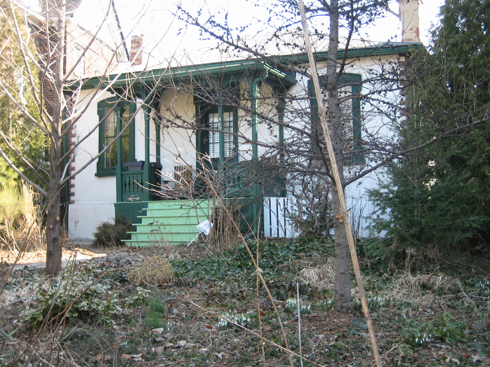 The John Cox Cottage on Broadview Avenue in Toronto's Riverdale neighbourhood. Built in 1807, it is believed to be the oldest continuously inhabited dwelling in Toronto. At the time of its construction, 200-acre parcels of land were granted to farmers with the goal of creating farms that could grow food to supply the settlement of York. John Cox got the parcel of land next to John Scadding’s and built this south-facing log cabin. When built, it would have looked out over rolling land freshly cleared of forest, and mud tracks instead of roads. Most farm cottages of that era burned down or were knocked down by new landowners as the city expanded.